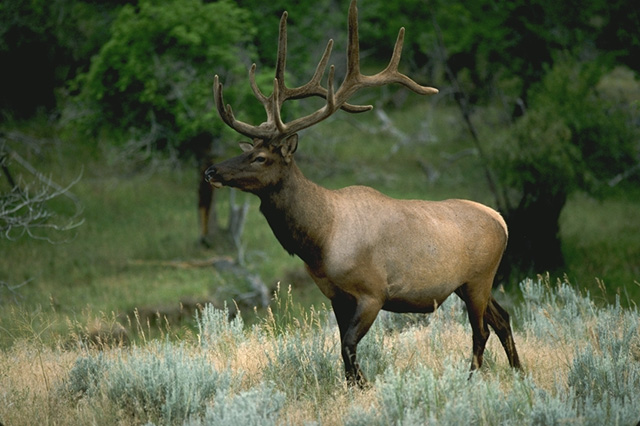 An Elk (Cervus canadensis) in Albany County, Wyoming.